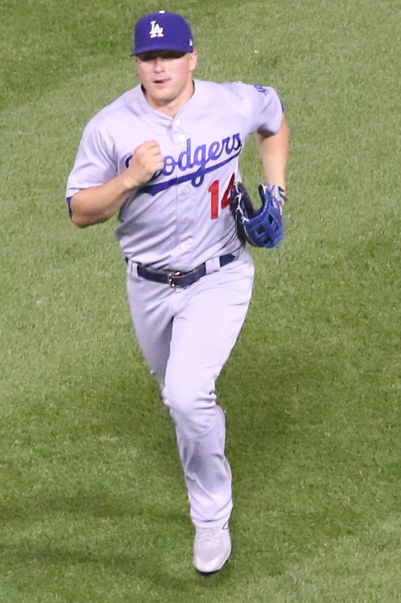 Enrique Hernández for the 2017 Los Angeles Dodgers